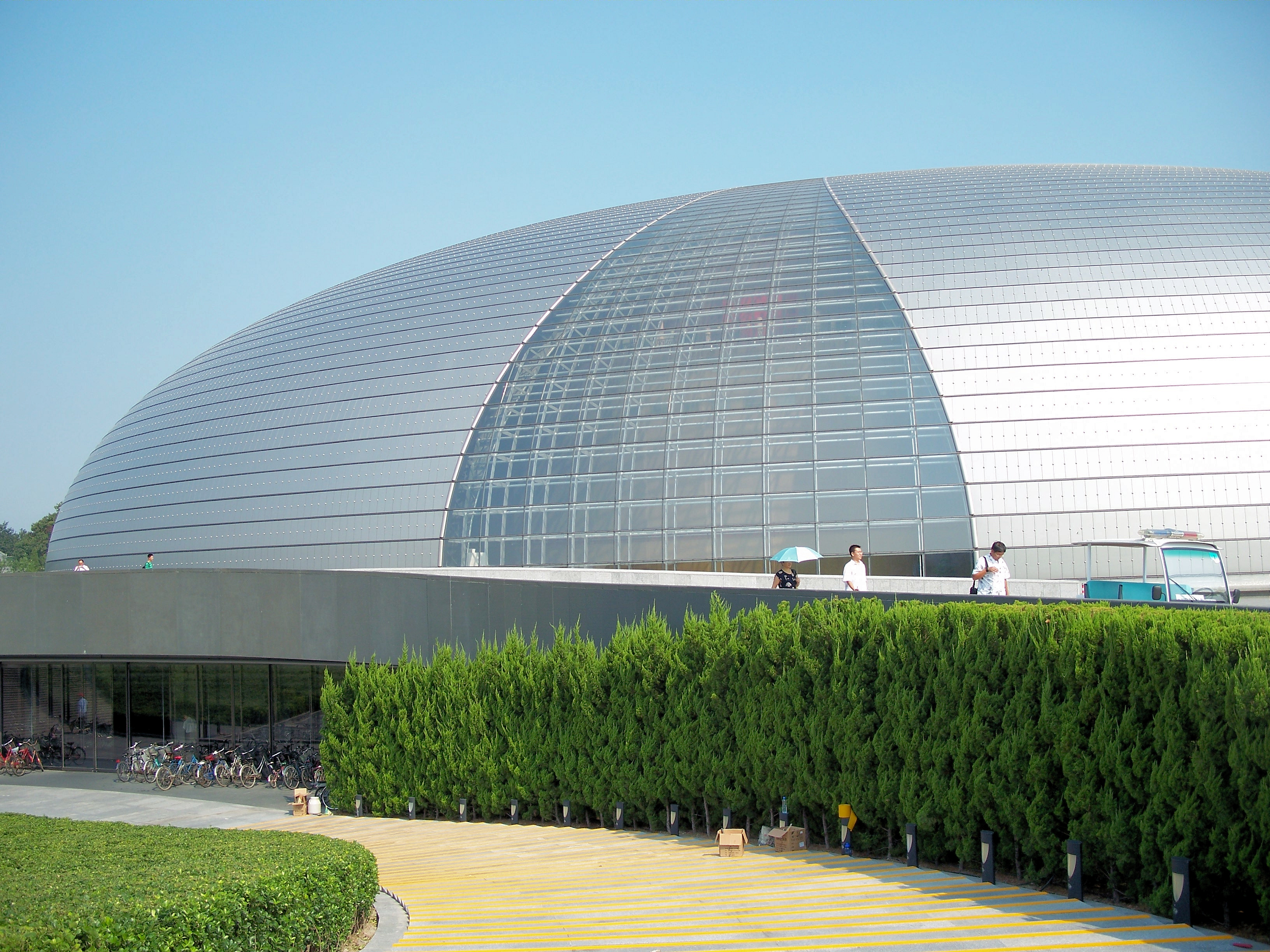 B006_NationalTheater